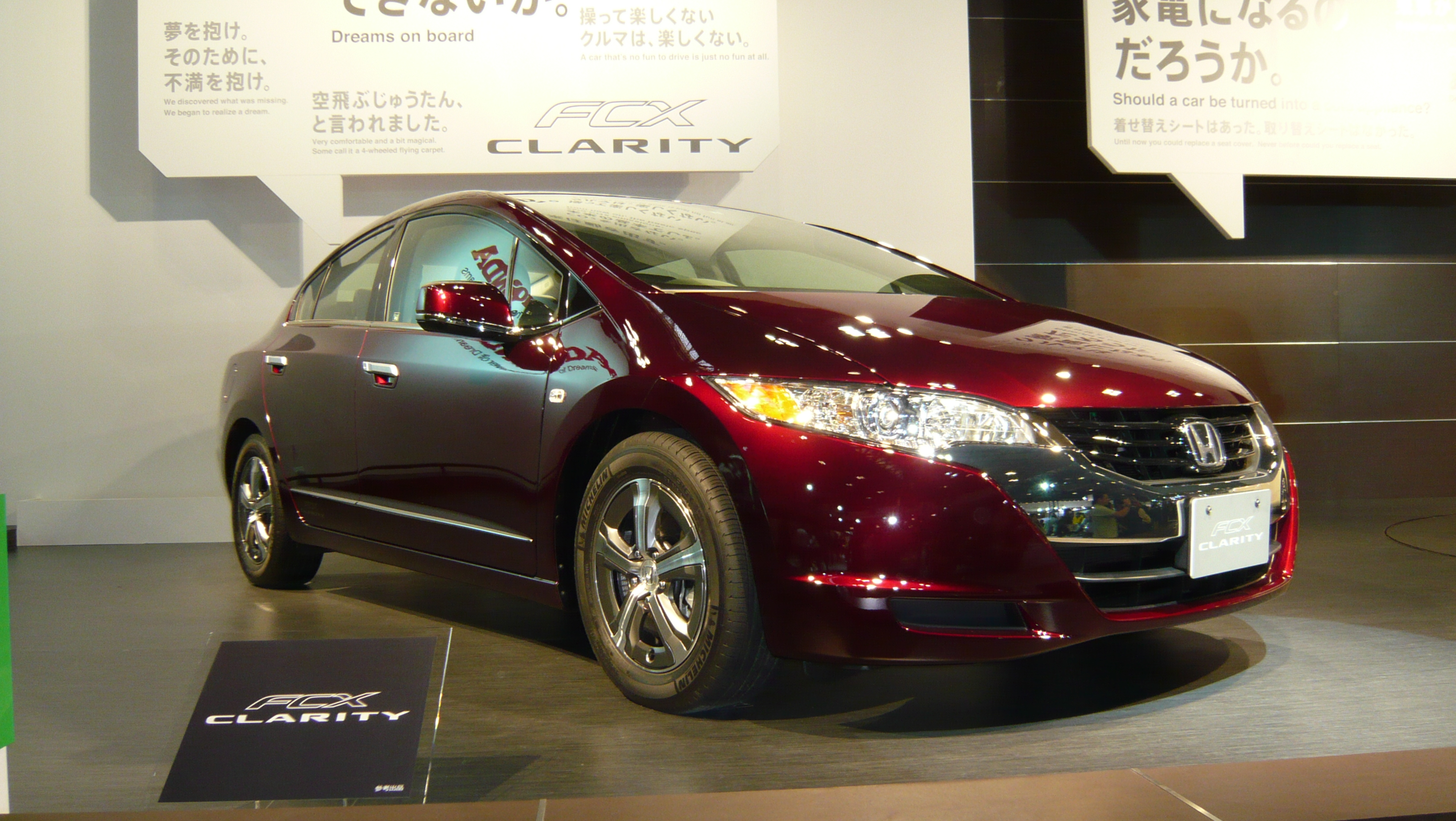 Honda FCX Clarity